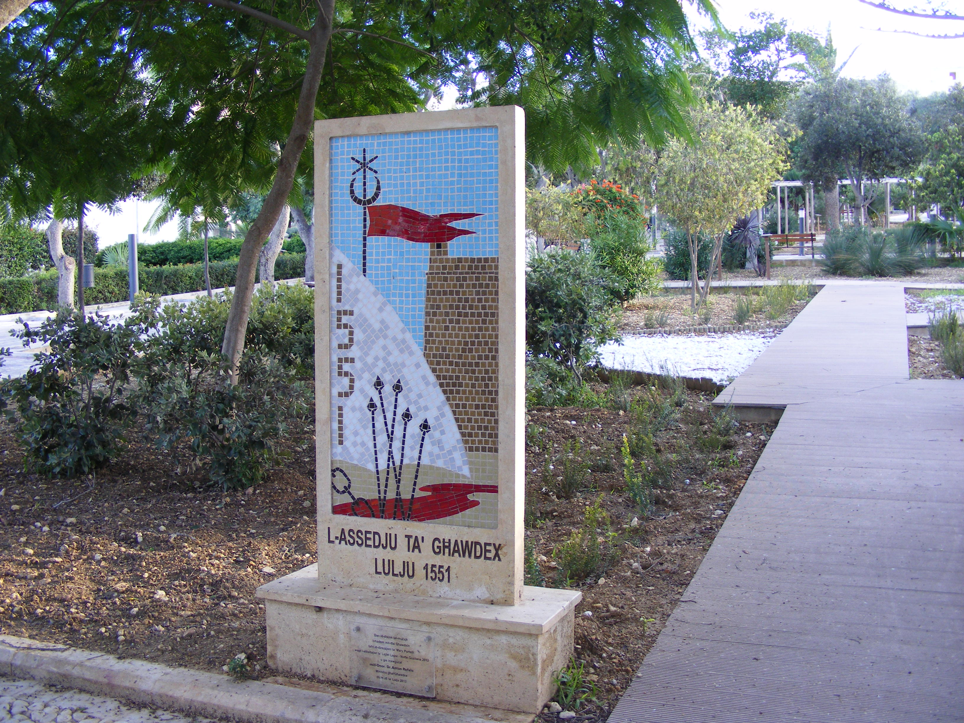 Villa Rundle Gardens, Rabat (Victoria), Gozo, Malta